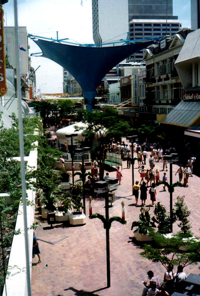 Queen Street Mall, Brisbane prior to its 1999 refurbishment. Summary Image originally uploaded by User:Figaro, colour adjustment in Photoshop. Public Domain licence continued.